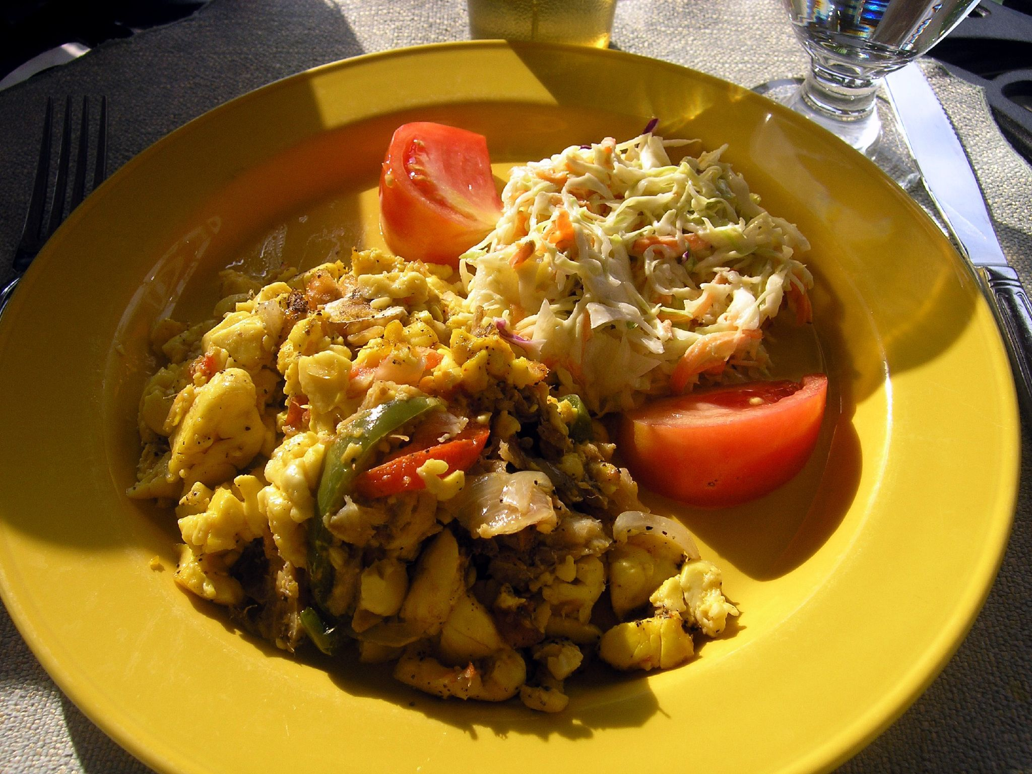 The Jamaican national dish of ackee and saltfish. Side dish-fabulous cole slaw! Ackee is a fruit, but tastes like scrambled eggs.